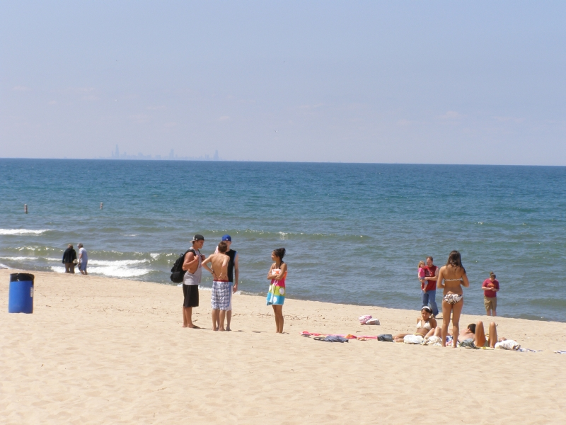 Lake Michigan from West Beach at Indiana Dunes National Lakeshore